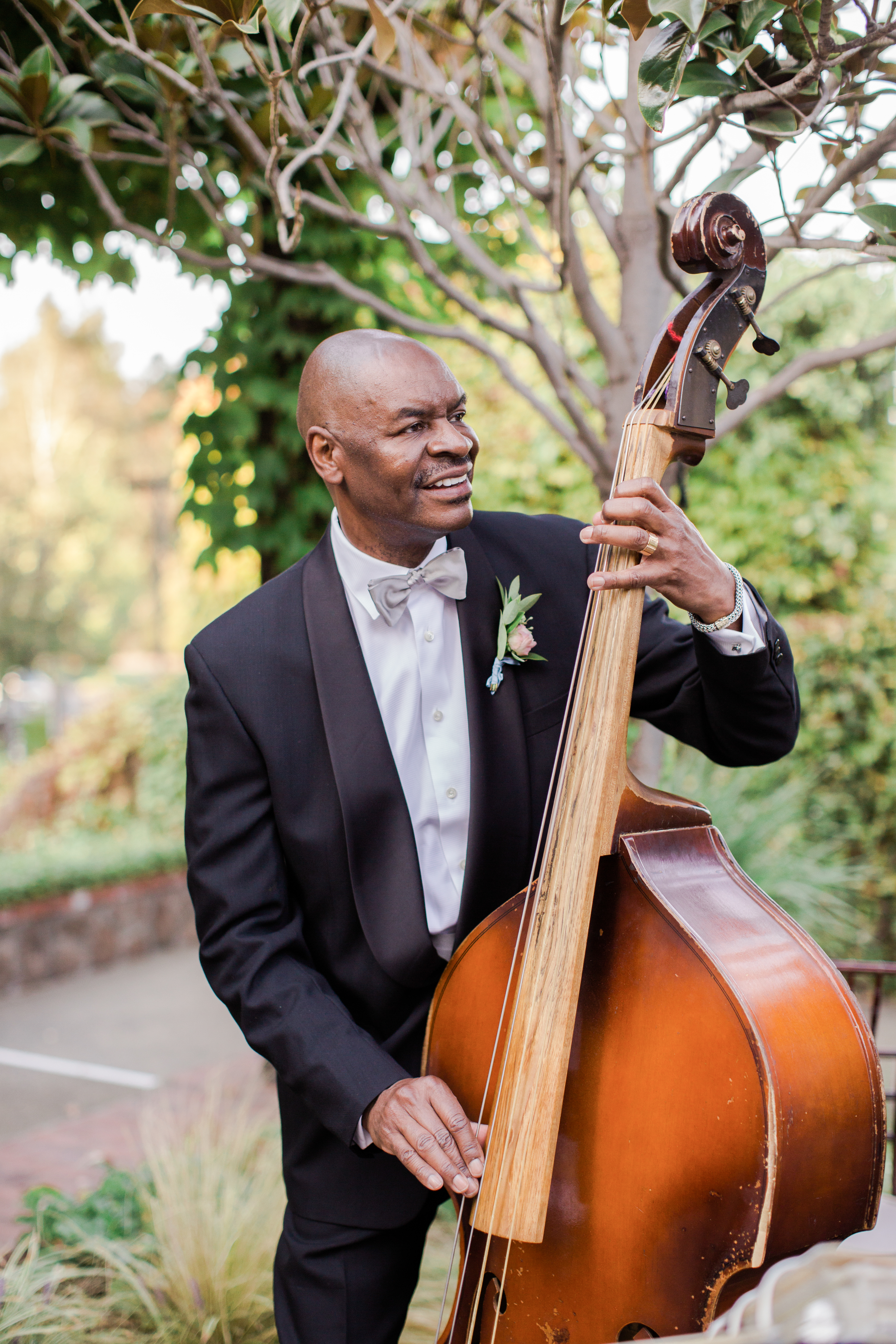 © Britt Rene Photography